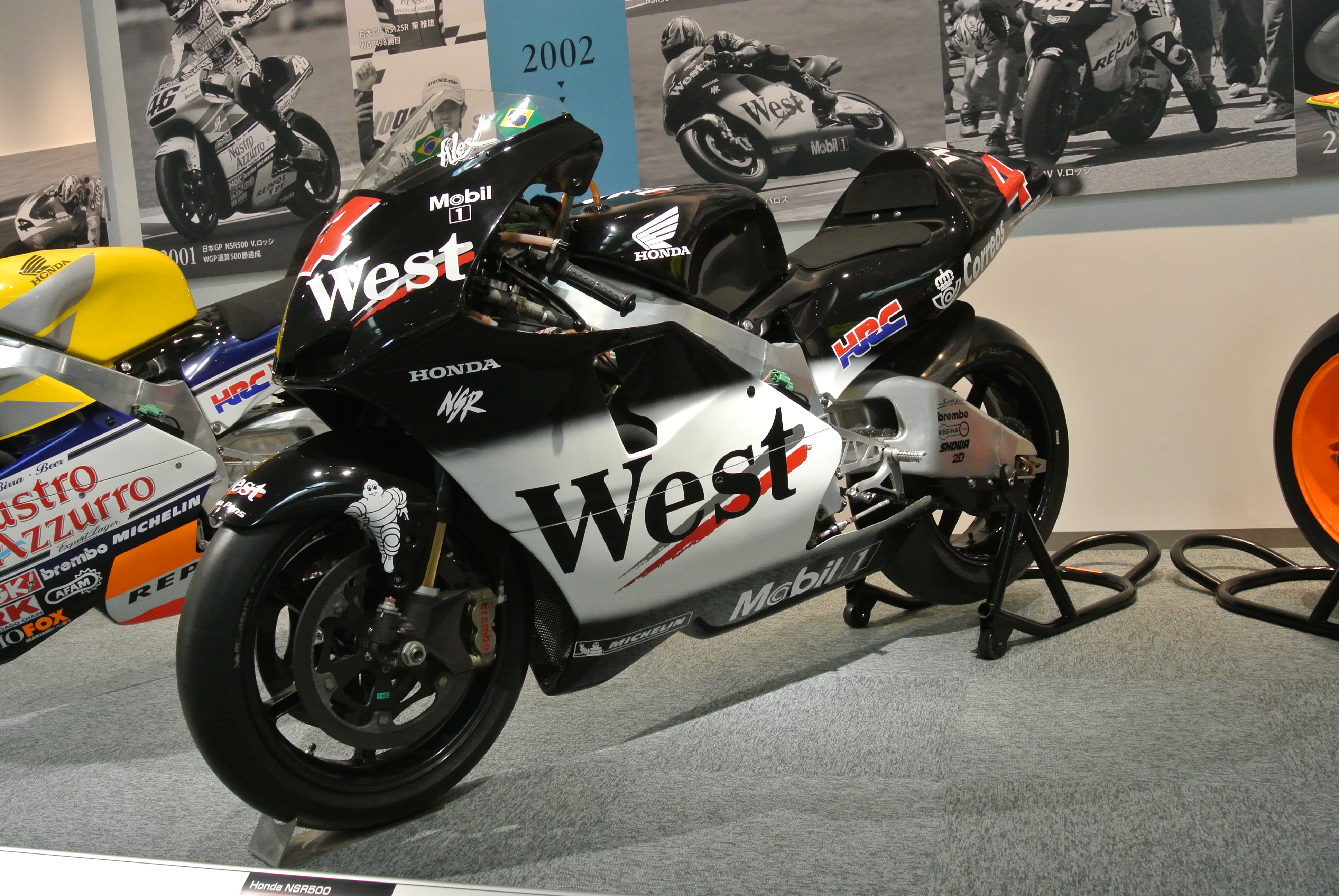 Honda NSR500 in the Honda Collection Hall.